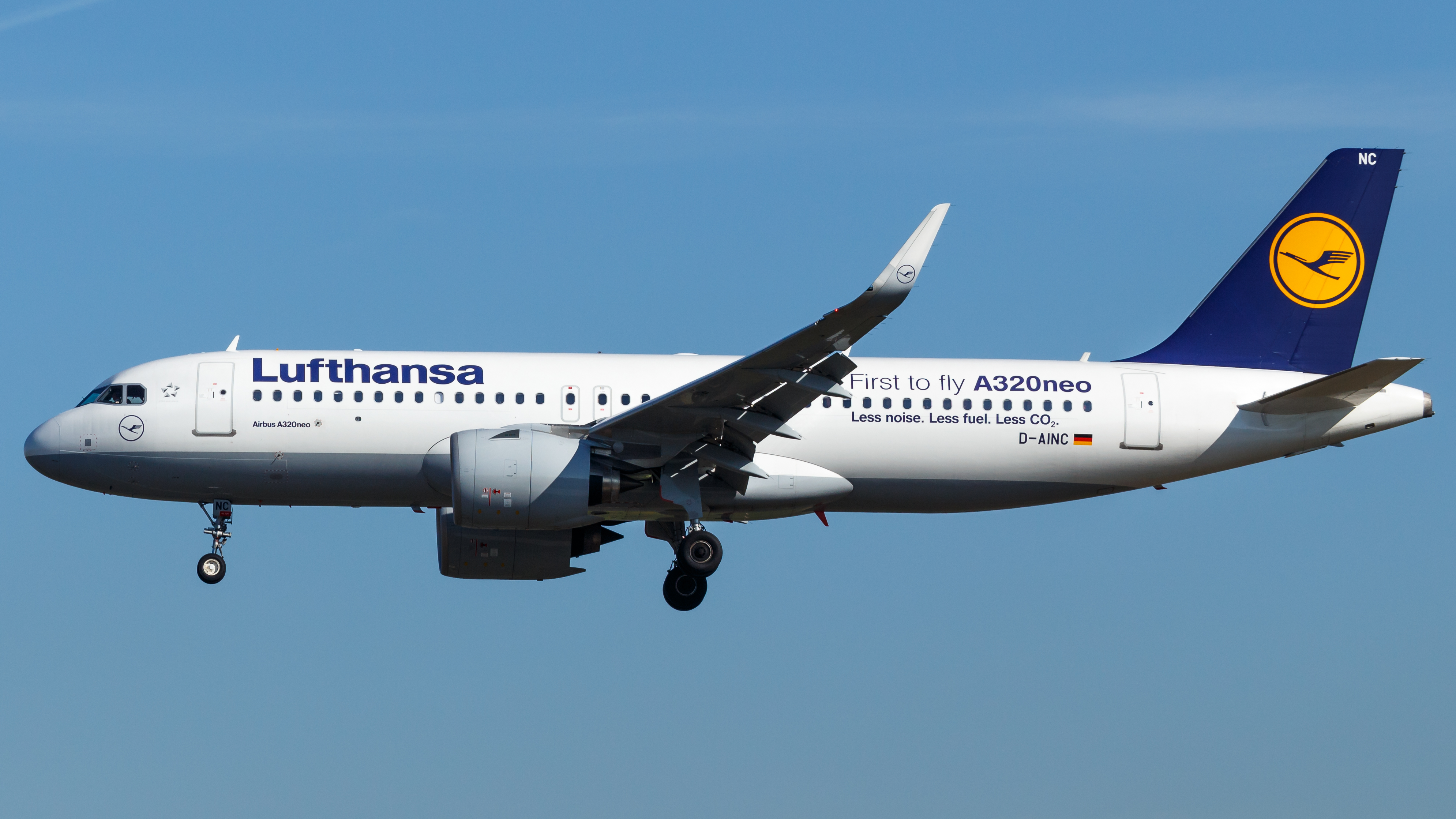 Lufthansa Airbus A320neo at Frankfurt Airport